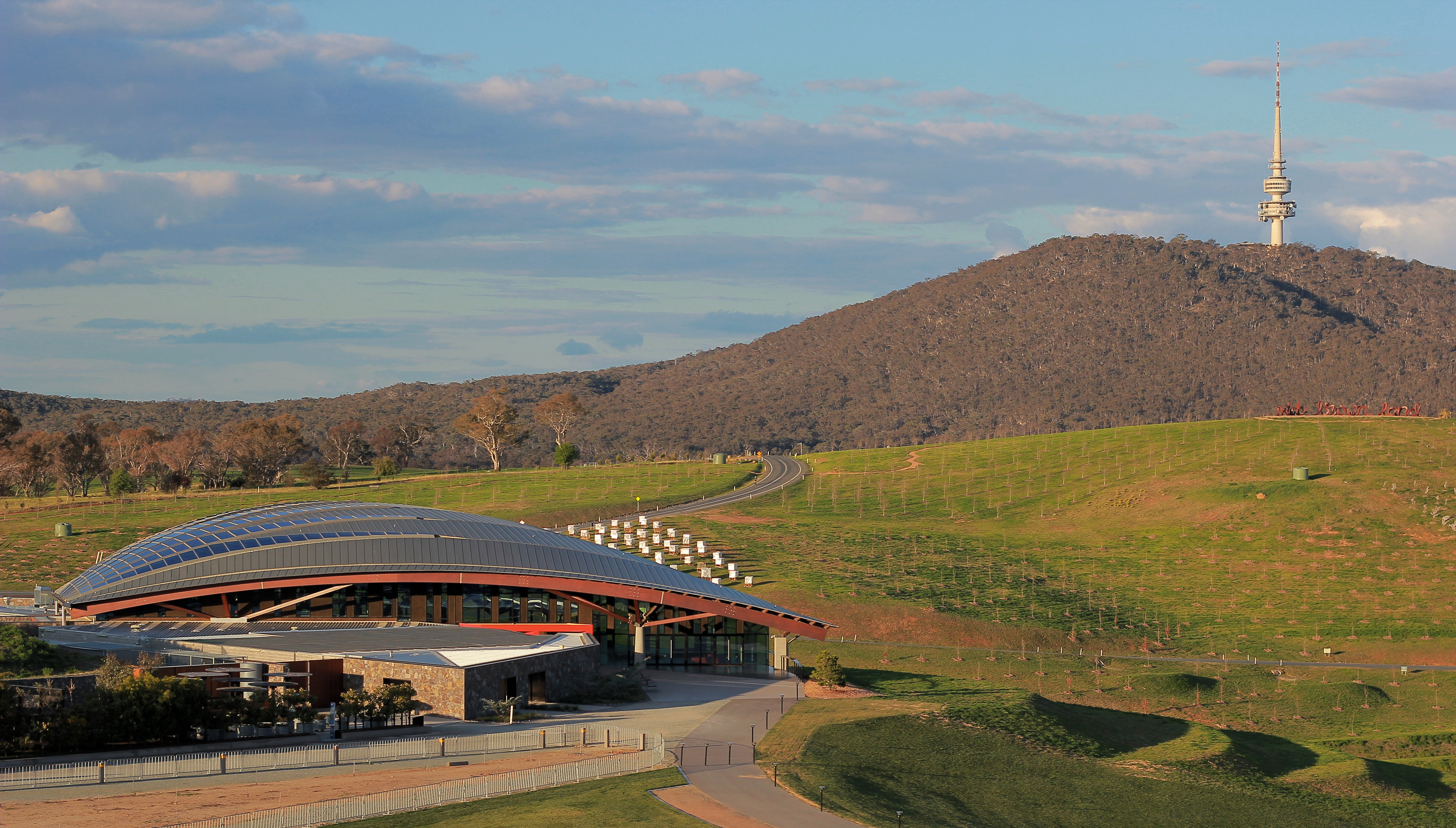 The Canberra National Arboretum (bottom left), with Telstra Tower, Canberra ACT Australia